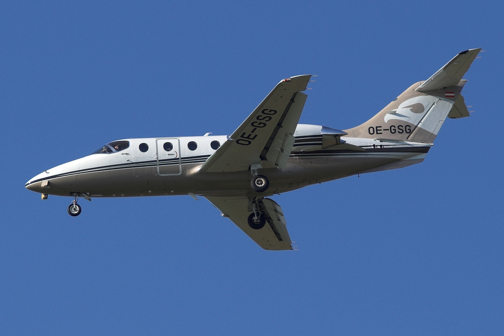 Jetalliance Hawker 400XP OE-GSG